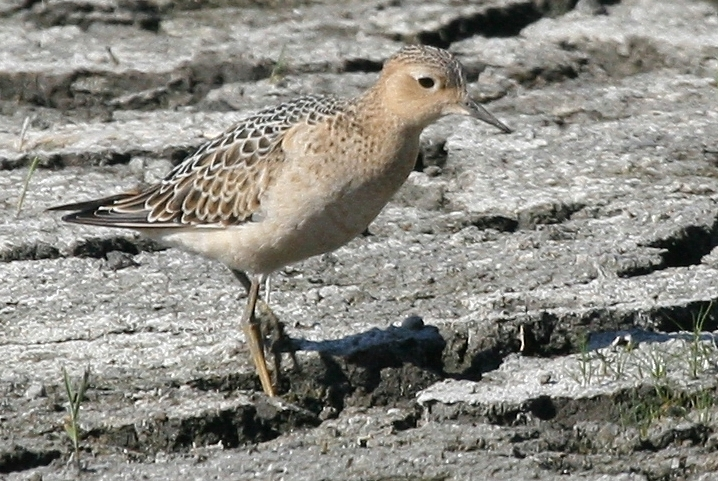 Buff-breasted Sandpiper, immature, somewhere in North America